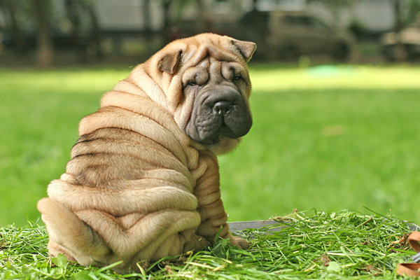 2monthly shar pei puppy, breeder Chernyi Chizh Shar Pei